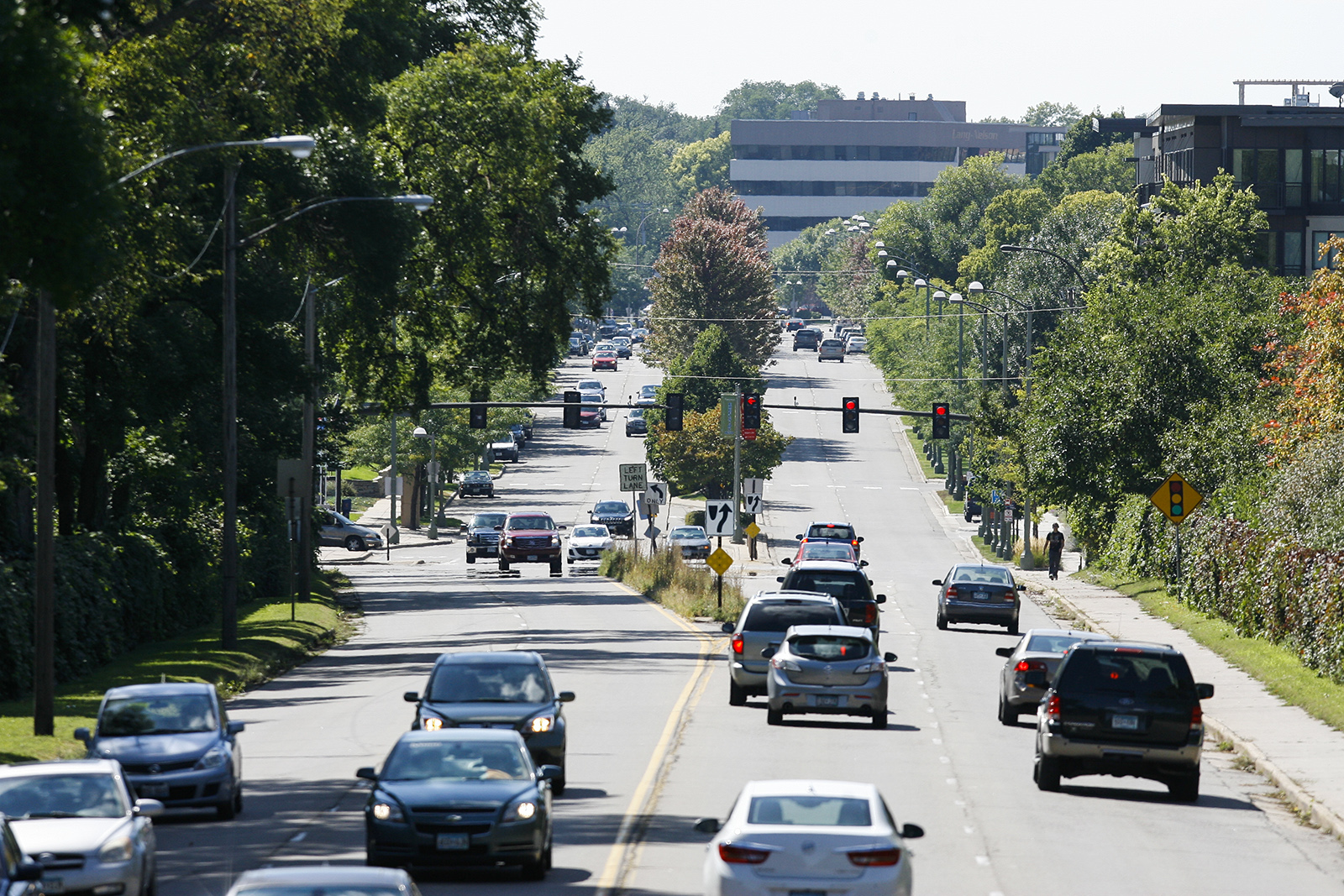 View of Excelsior Boulevard (Hennepin County Road 3) looking southwest from the bridge at the Minikahda Club toward St. Louis Park, MN, seen here on September 16, 2014. The intersection nearest the camera shows France Avenue (Hennepin County Road 17 from Excelsior south to Old Shakopee Road in Bloomington, MN).